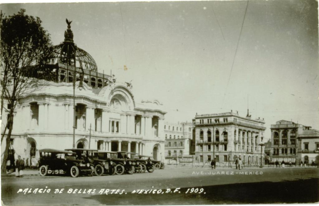 Palacio de Bellas Artes